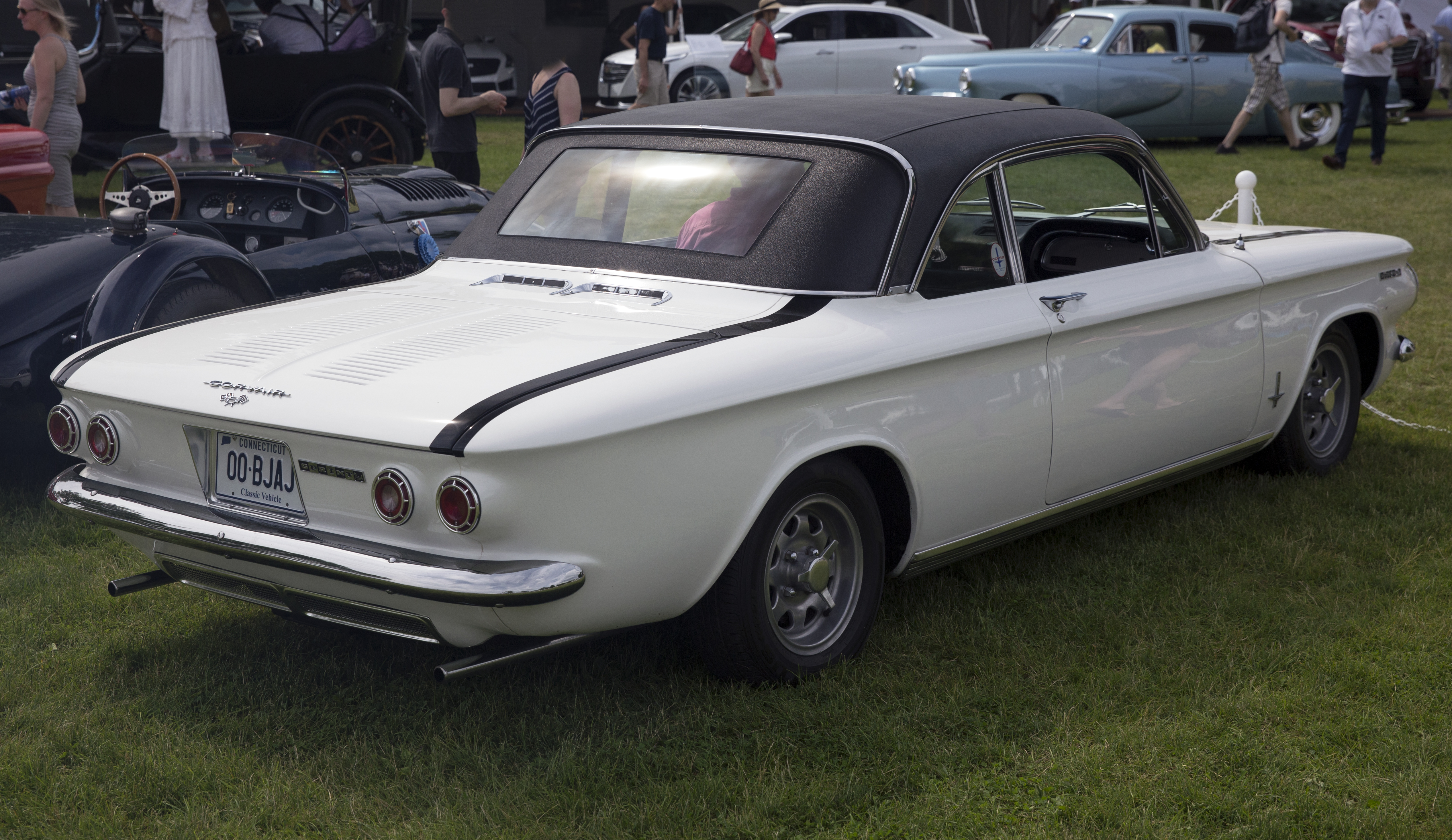 A 1962 Corvair Monza Fitch Sprint seen at the 2018 Greenwich Concours d'Elegance. Fitted with the rare 8-hole Hands mag wheels with centre spinners and the peculiar vinyl-covered roof, with parts of the rear windshield blanked off.